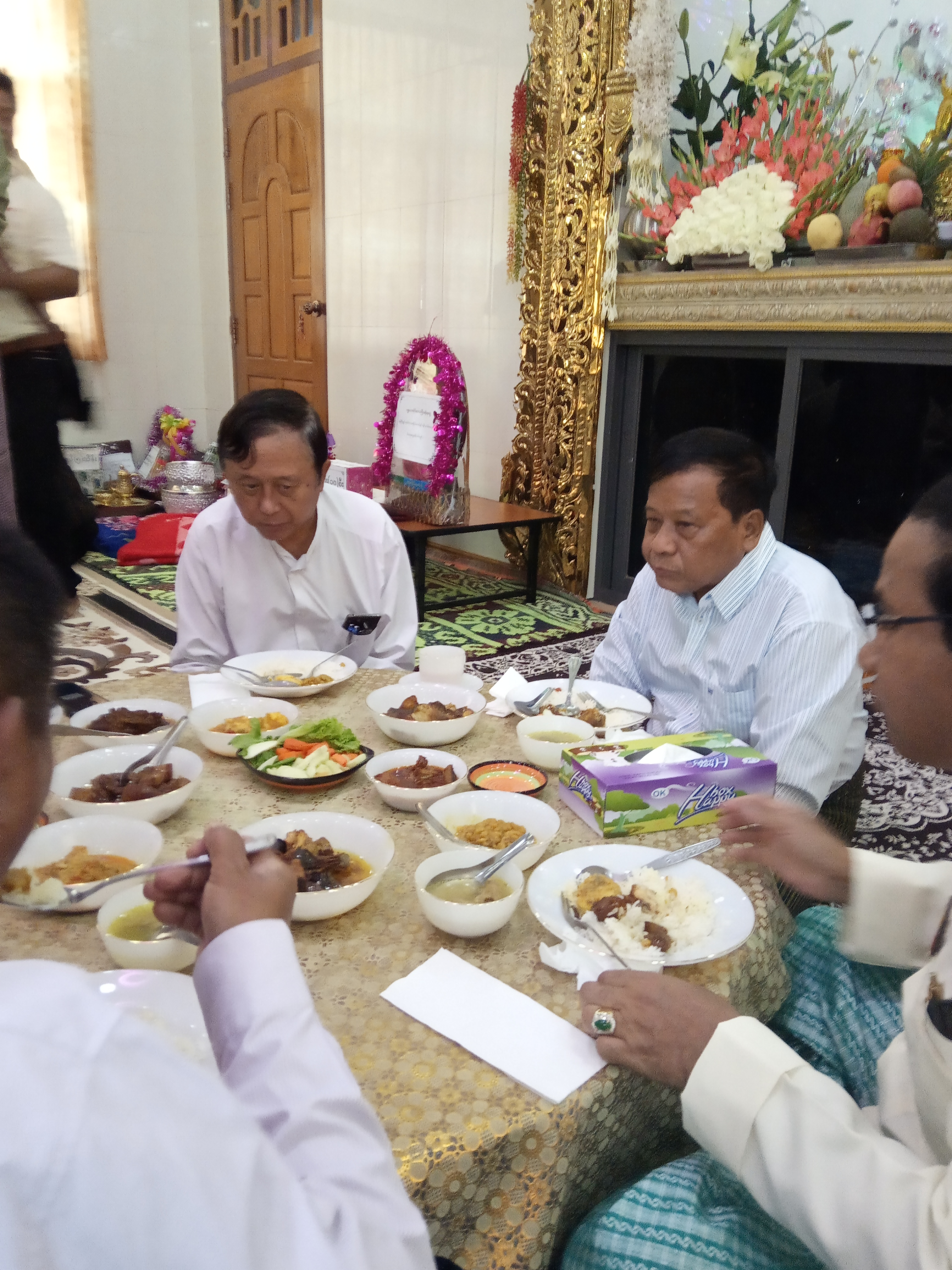 Ye Lwin, mayor of Mandalay and Zaw Myint Maung, Chief Minister of Mandalay Region မြန်မာဘာသာ: မန္တ​လေးမြို့​တော်ဝန် ​ဒေါက်တာရဲလွင်နှင့် မန္တ​လေးတိုင်းဝန်ကြီးချုပ် ​ဒေါက်တာ​ဇော်မြင့်​မောင်